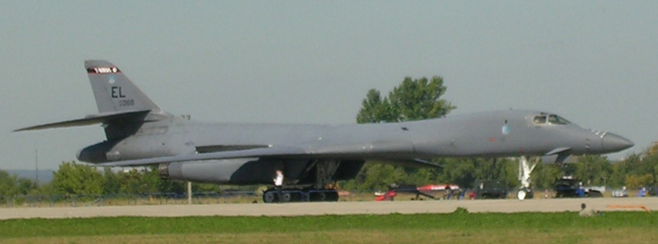 B1B bomber on the MAKS-2005